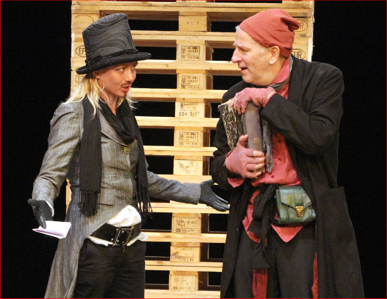 "Servant of Two Masters" a play by Carlo Goldoni, directed by Boris Liješević; Drama of the SNT, Novi Sad, 2012/13; Sanja Ristić Krajnov, Branimir Brstina Srpski (latinica): "Sluga dvaju gospodara", komad Karla Goldonija; režija Boris Liješević; Drama SNP, Novi Sad, 2012/13; Sanja Ristić Krajnov, Branimir Brstina Српски (ћирилица): "Слуга двају господара", комад Карла Голдонија; режија Борис Лијешевић Драма СНП, Нови Сад, 2012/13; Сања Ристић Крајнов, Бранимир Брстина